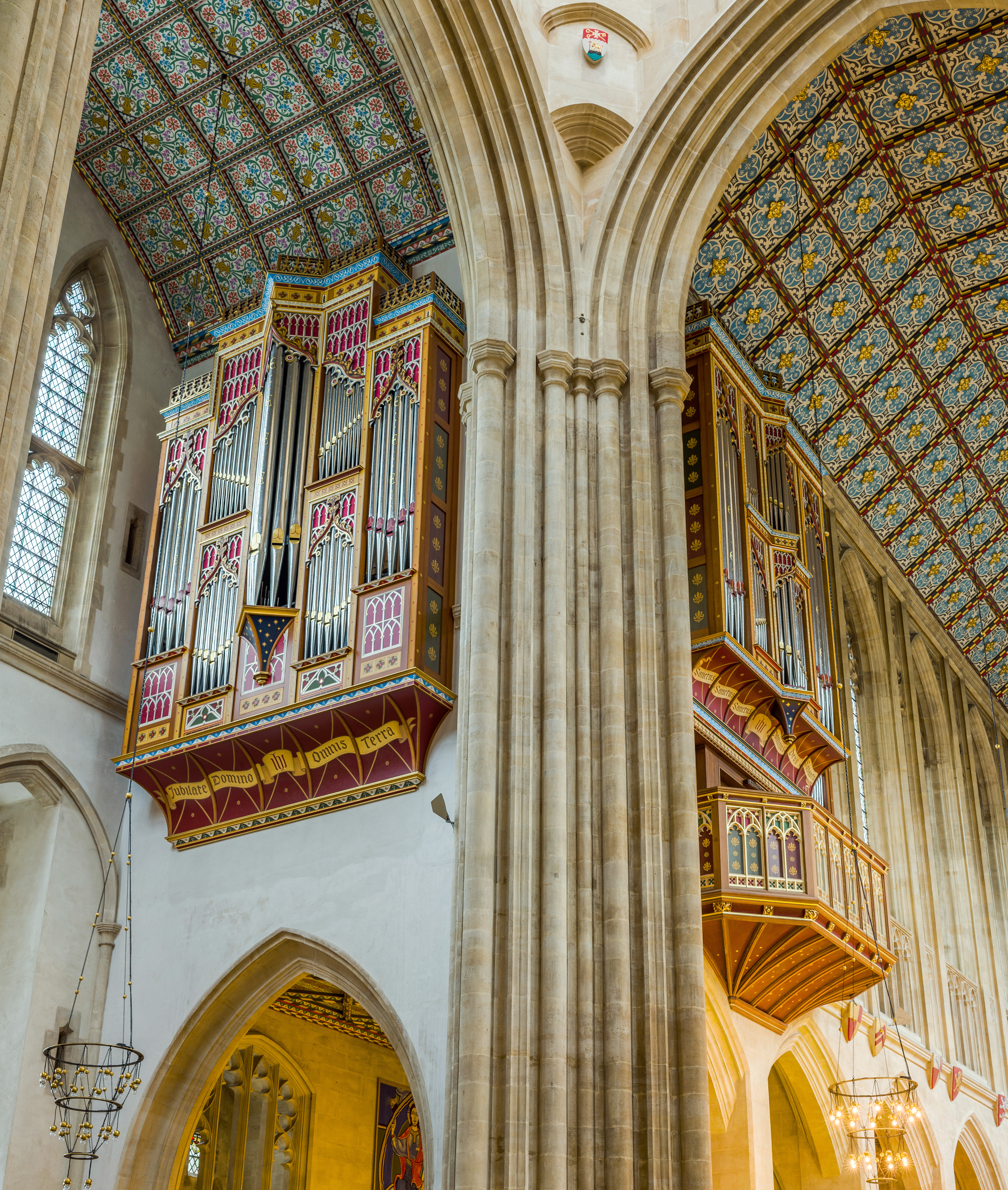 The two organs in St Edmundsbury Cathedral in Suffolk, England.